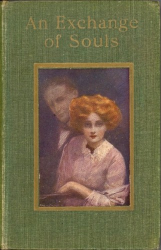 Cover of Barry Pain's supernatural horror novel An Exchange of Souls, London: Eveleigh Nash, 1911.